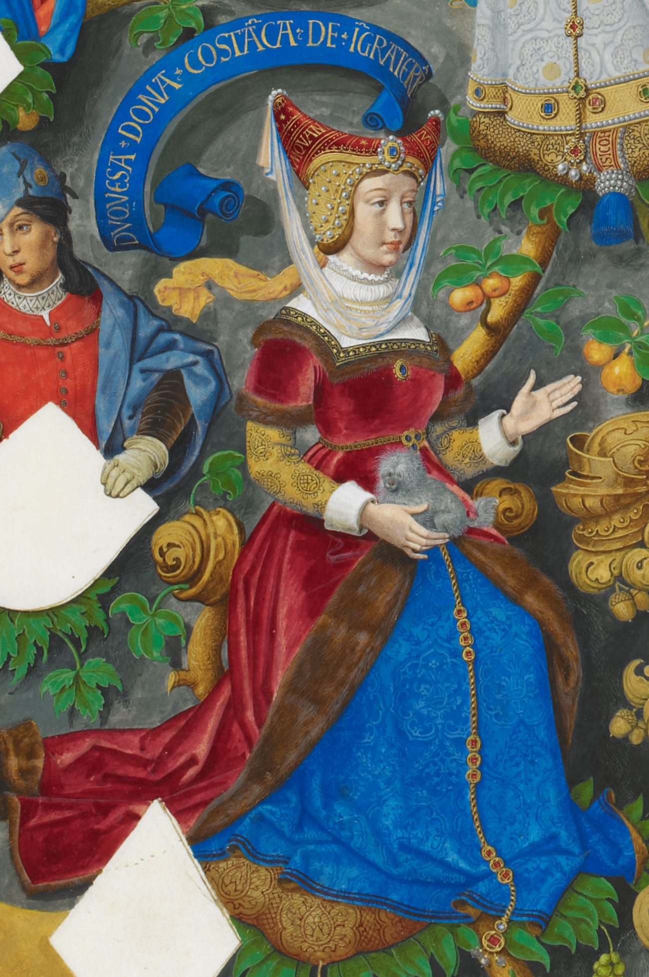 Constance of Castile (1354-1394), Duchess of Lancaster, by her marriage to John of Gaunt.